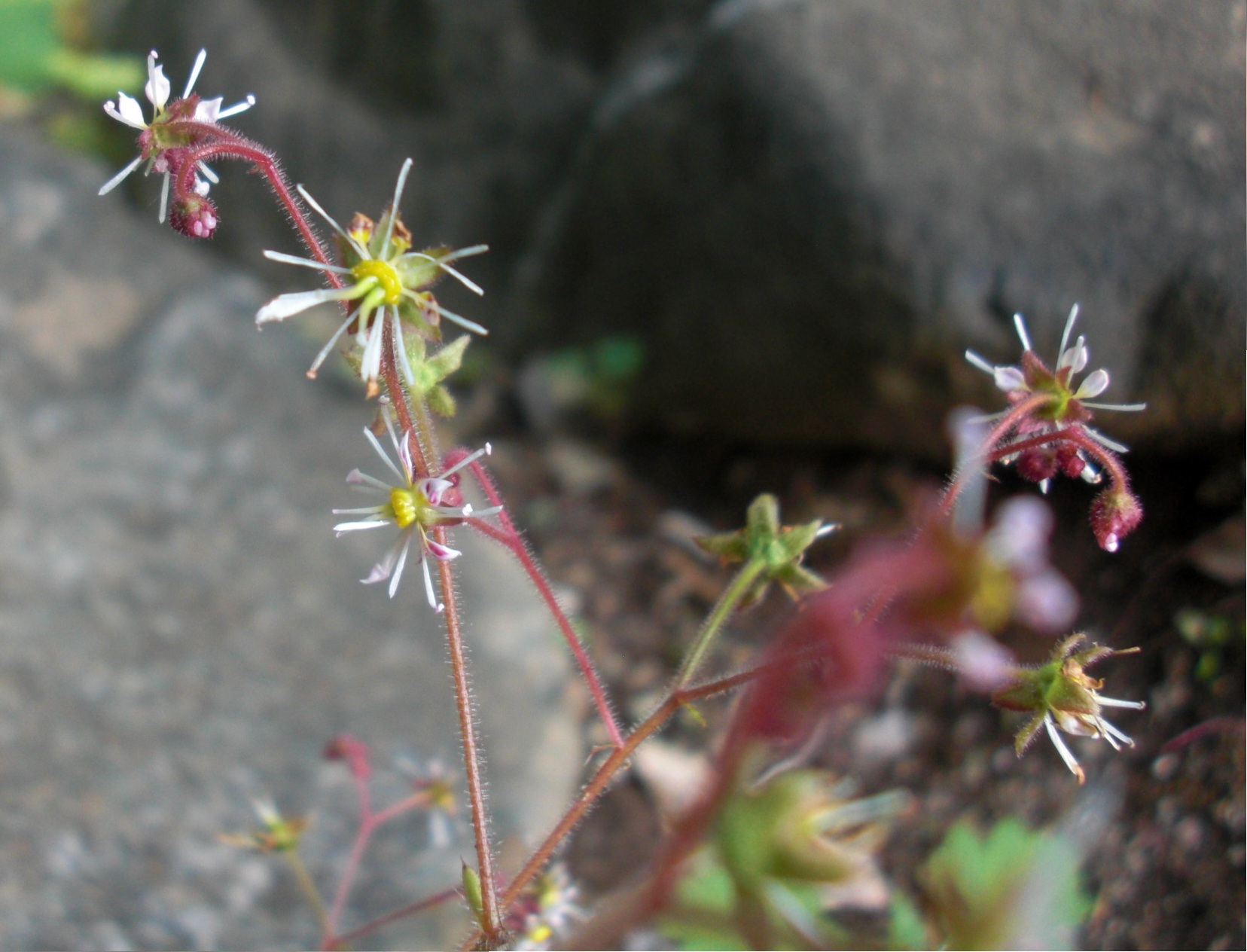 These are flowers of Saxifraga stolonifera Curtis f. aptera (Makino) H. Hara at the Tsukuba Botanical Garden in Japan.